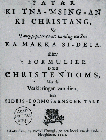 Front 't Formulier des Christendoms (1662) in Siraya-language ( Formosa)